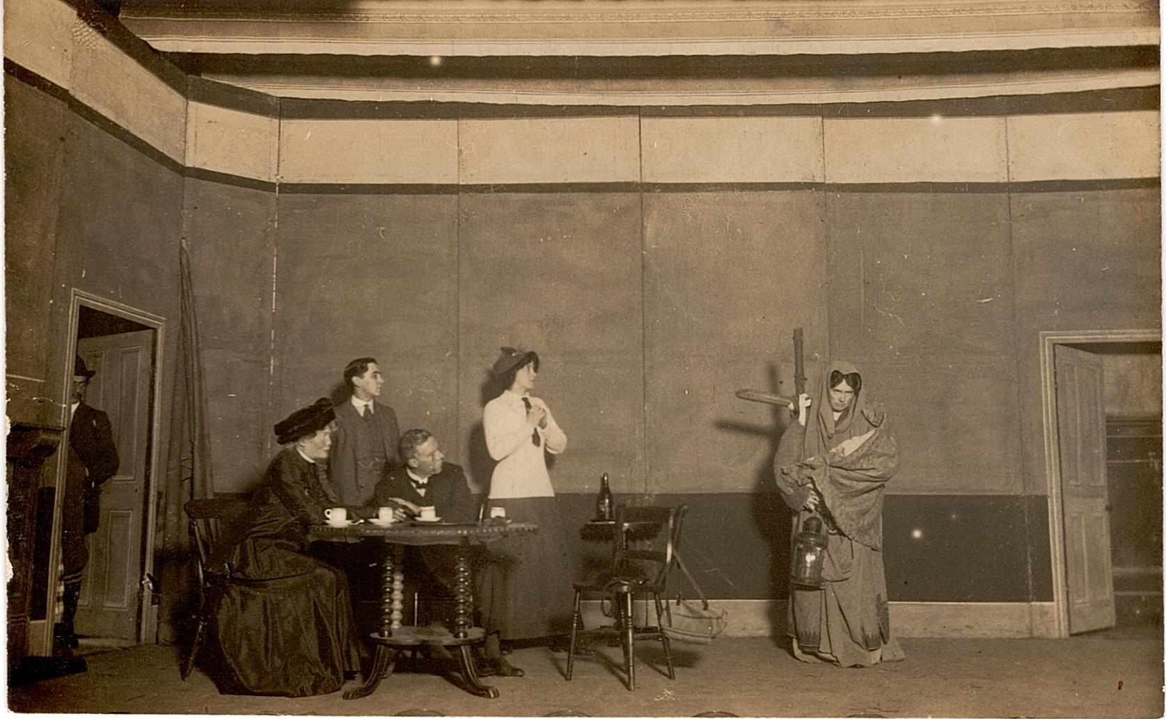 Probably the play 'A Pageant of Great Women'. Photograph by F Kehrhahn & Co, Bexleyheath, Kent. TWL.2002.615